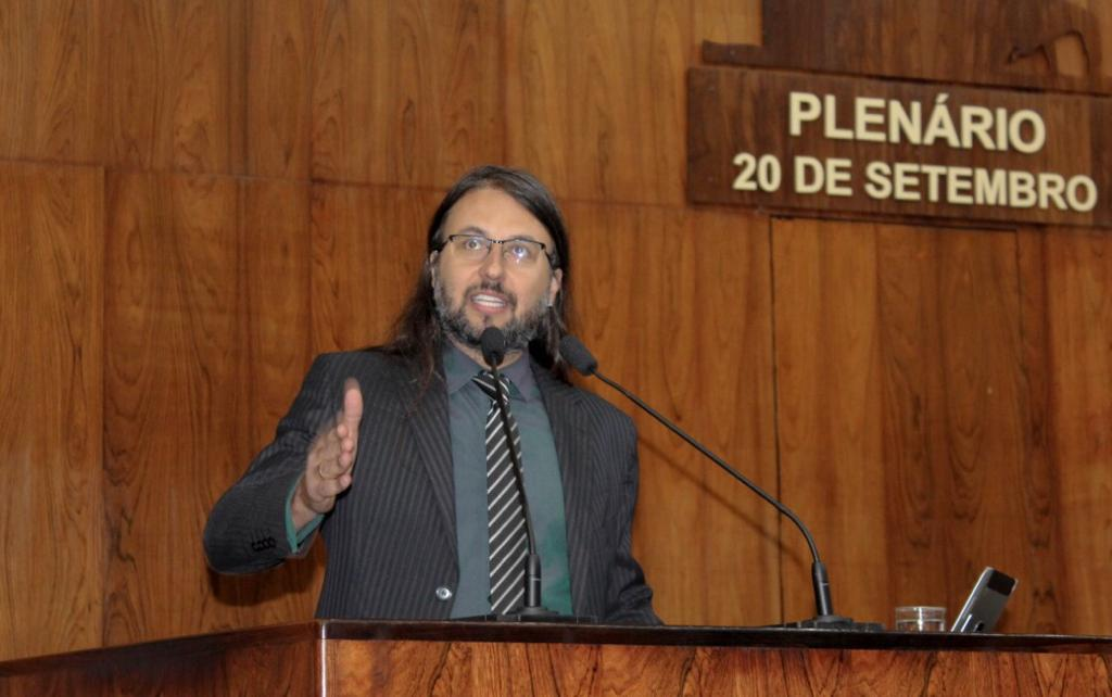 Picture in the parliament building of Rio Grande do Sul